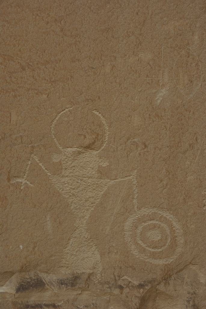 Pictograph along the Escalante River